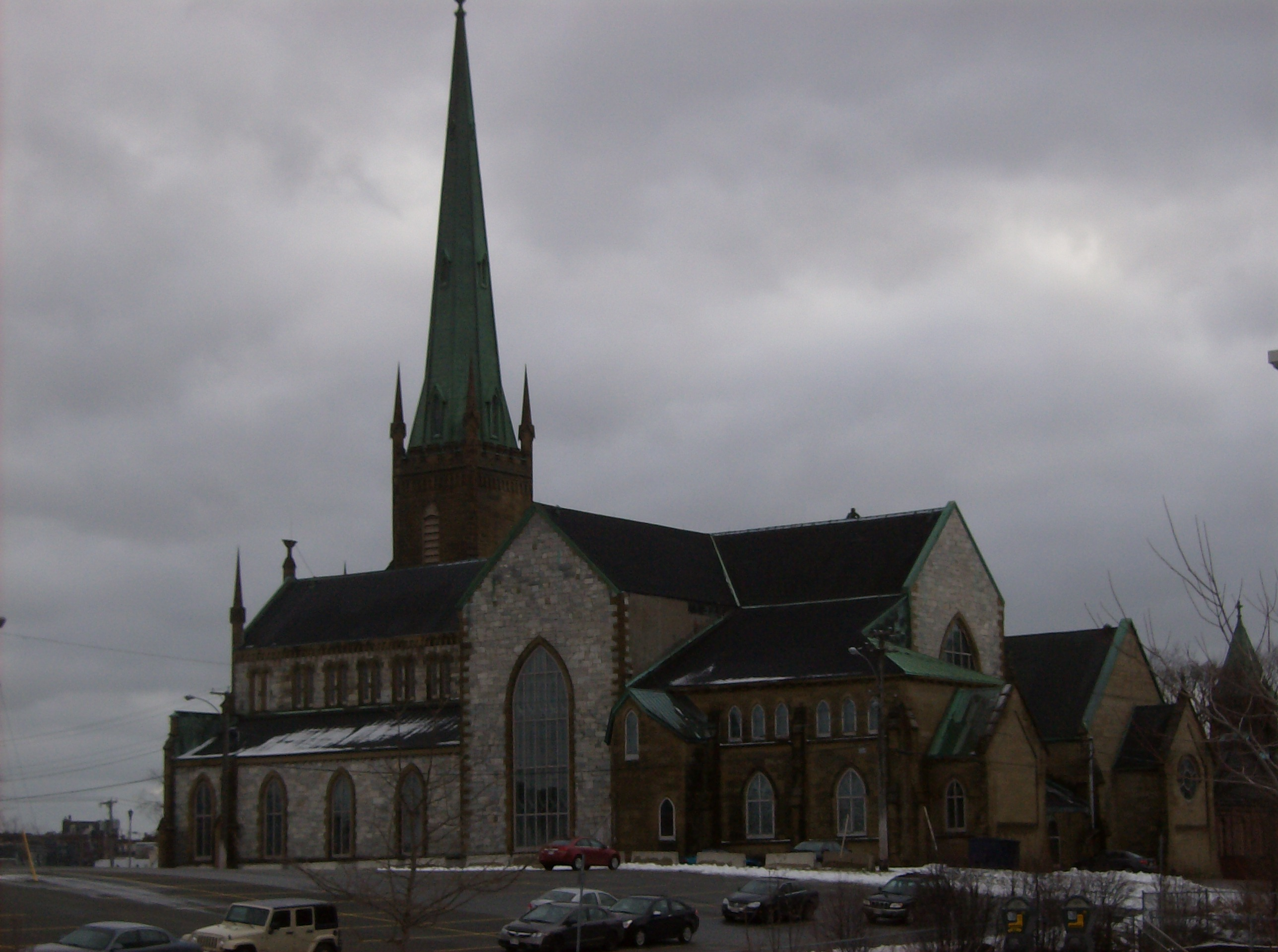 Cathedral of the Immaculate conception looking south west Saint John NB